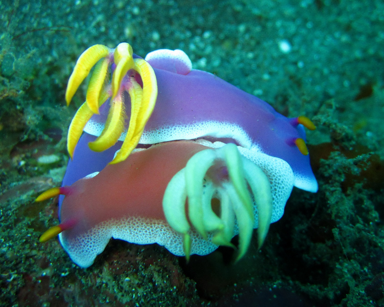 Hpselodoris apolegma (Yorow, 2001) (synonym : Risbecia apolegma); Lembeh, Indonesia